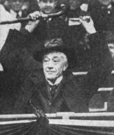 Newly appointed Commissioner Kenesaw Mountain Landis opens the 1921 baseball season.